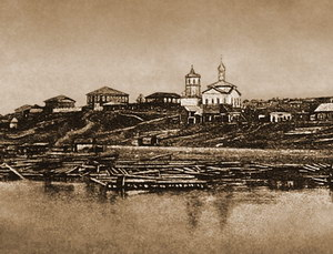 Vitim (Sakha) 19 th century